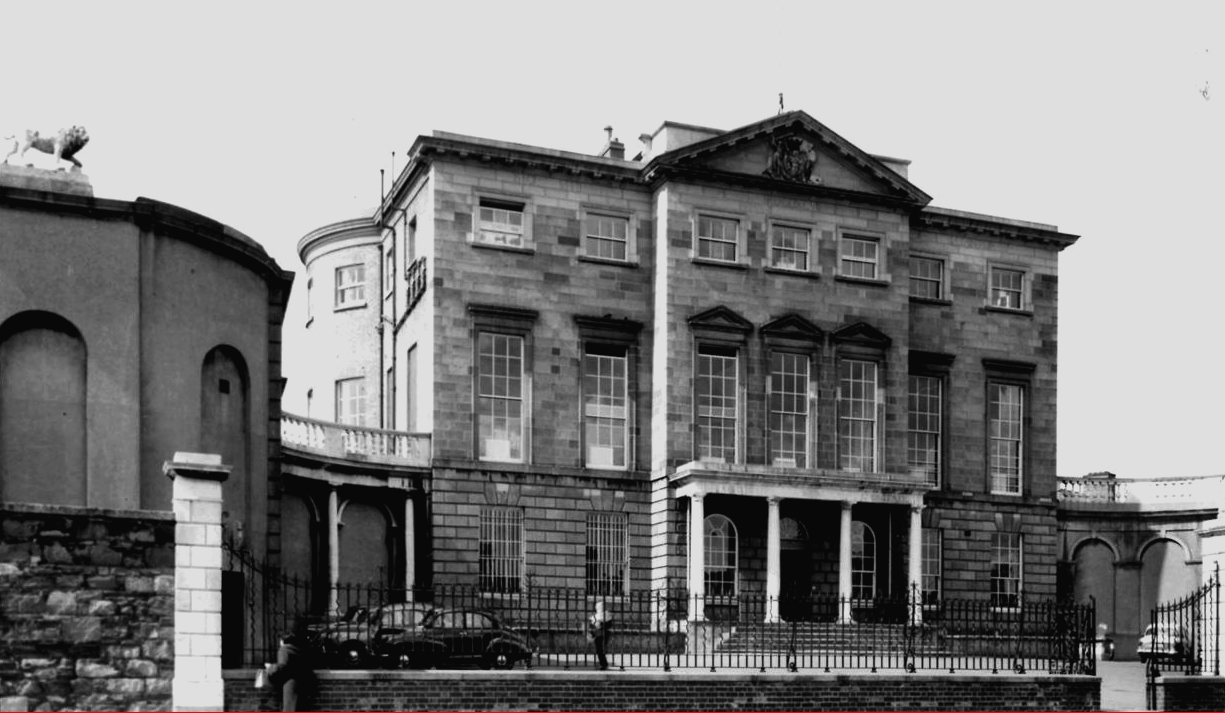 Aldborough House, Portland Row, Dublin, Ireland. Built by Edward Augustus Stratford (1736-1801), 2nd Earl of Aldborough as Dublin's last great house of the eighteenth century. The foundation was laid down in 1792 and, although it bears the date 1796, evidence shows that it was still not fully completed by 1798. It included a Play House, a cold bath and a music room. (The building remains on Portland Row, but as of 2014 is in a substantial state of disrepair.)